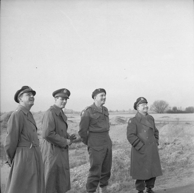 Operation 'market Garden' (the Battle For Arnhem)- 17 - 25 September 1944 Personalities: Lieutenant General Lewis Brereton, Chief of the Allied Airborne Army, with Brigadier Goldsmith and American officers of the Allied Air staff watching a large scale exercise by the 6th (British) Airborne Division in the West Country.